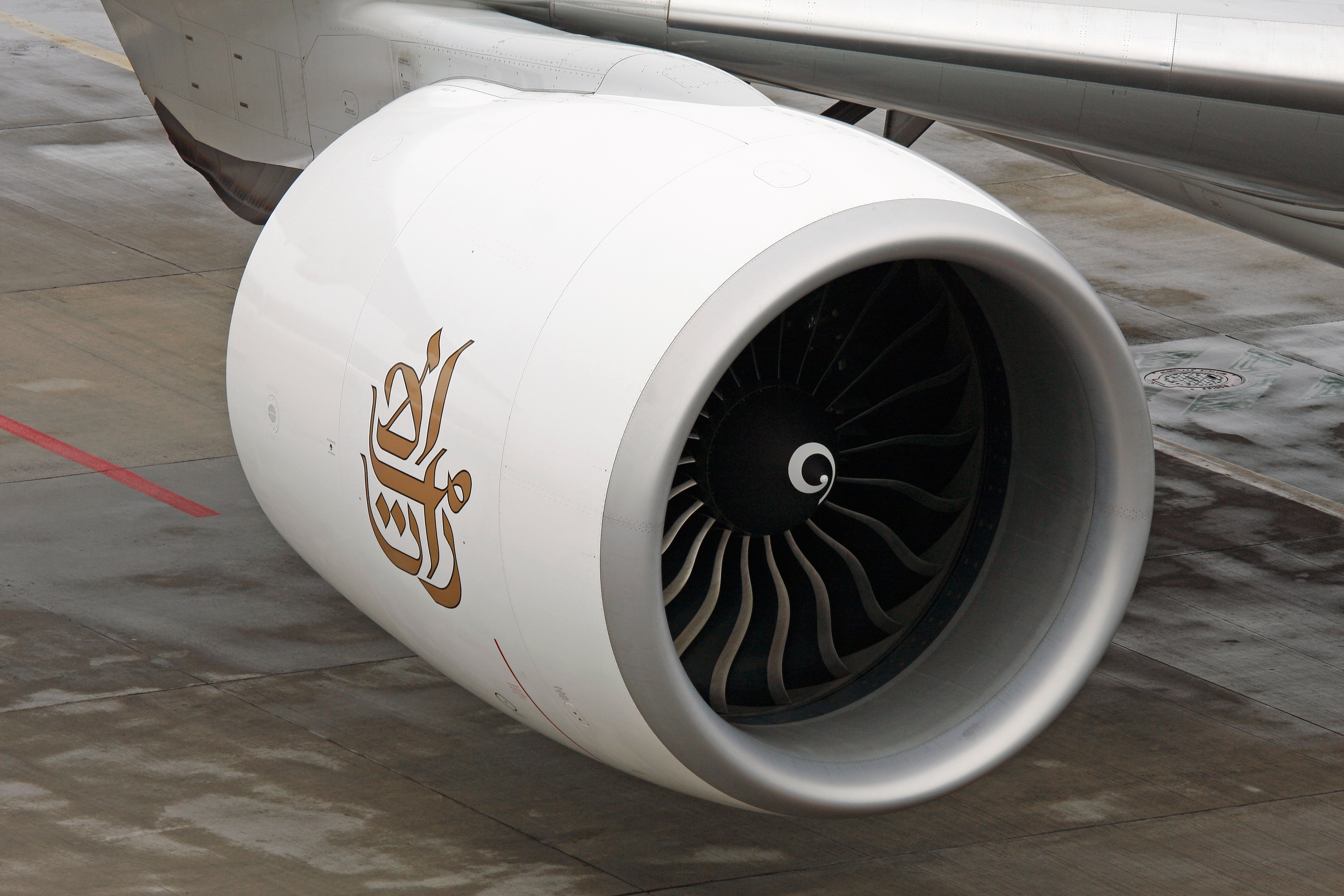 One of two General Electric GE90 turbofans installed on an Emirates Boeing 777